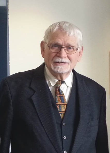 Reinhard Strecker (*8-9-1930, Zehden), before receiving "The Order of Merit of the Federal Republic of Germany" in Berlin, Germany, Aug. 24th 2015.